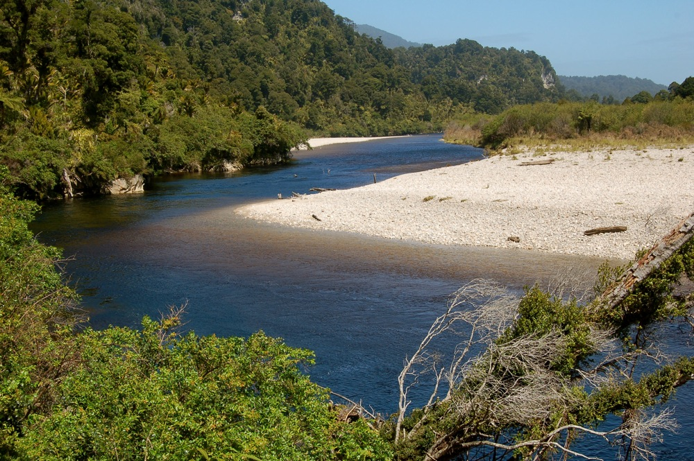 Beautiful spot at a bend in the Heaphy River. Only a couple kilometers from the Tasman Sea.